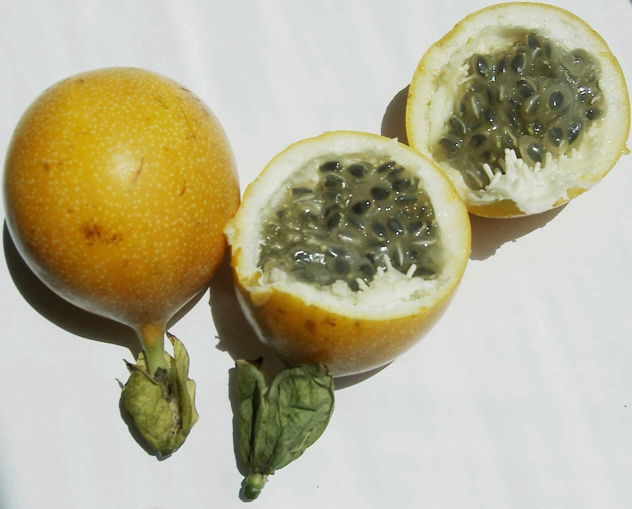 Two sweet granadillas, one of them opened to show the edible seeds. Picture taken by Fibonacci.